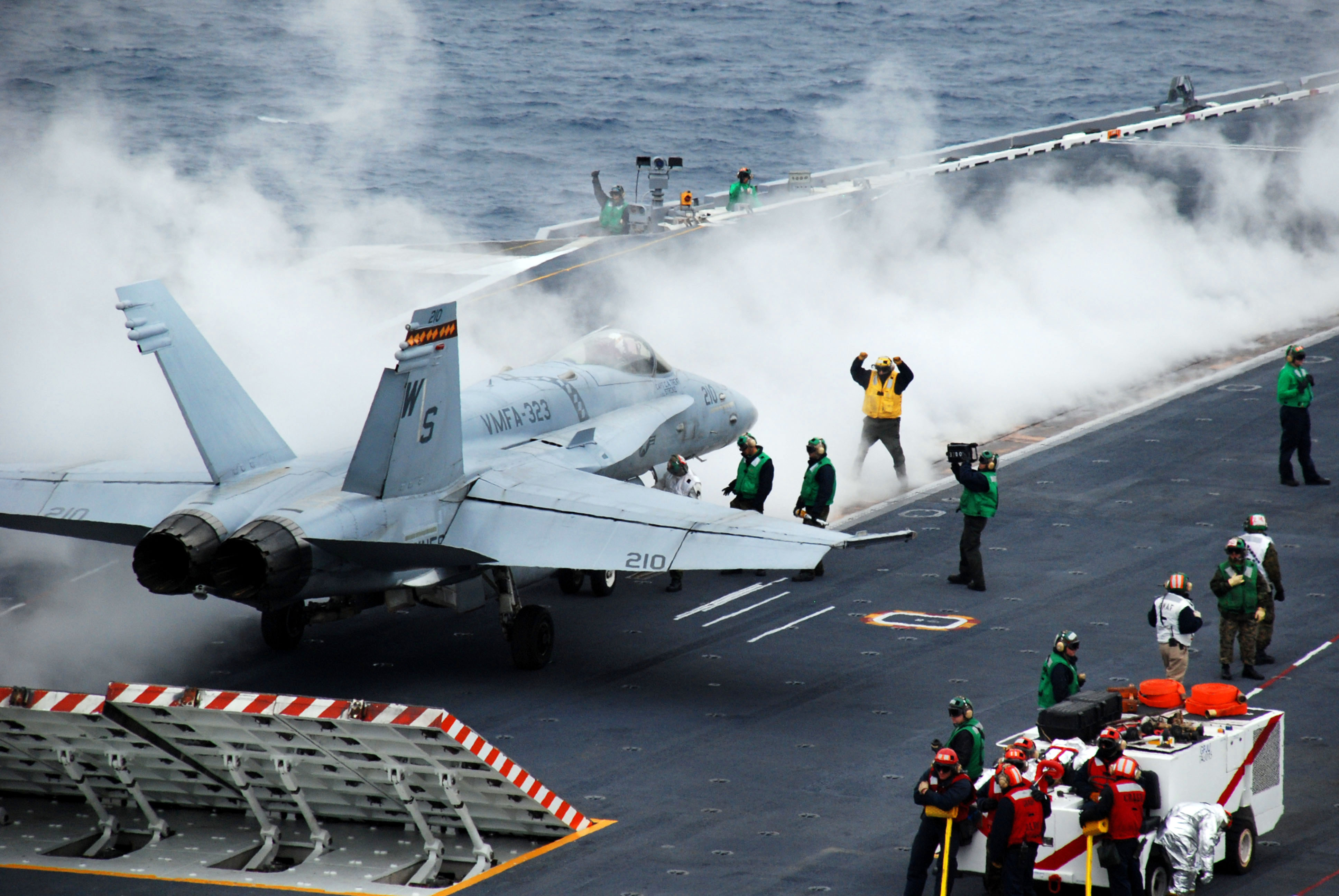 Pacific Ocean, 7 May 2008: An McDonnell Douglas F/A-18C Hornet from the "Death Rattlers" of Marine Strike Fighter Squadron VMFA-323 prepares to launch from the flight deck of the Nimitz-class aircraft carrier USS John C. Stennis (CVN-74) during flight operations. Stennis and embarked Carrier Air Wing 9 (CVW-9) were under way off the coast of Southern California conducting flight deck certification.